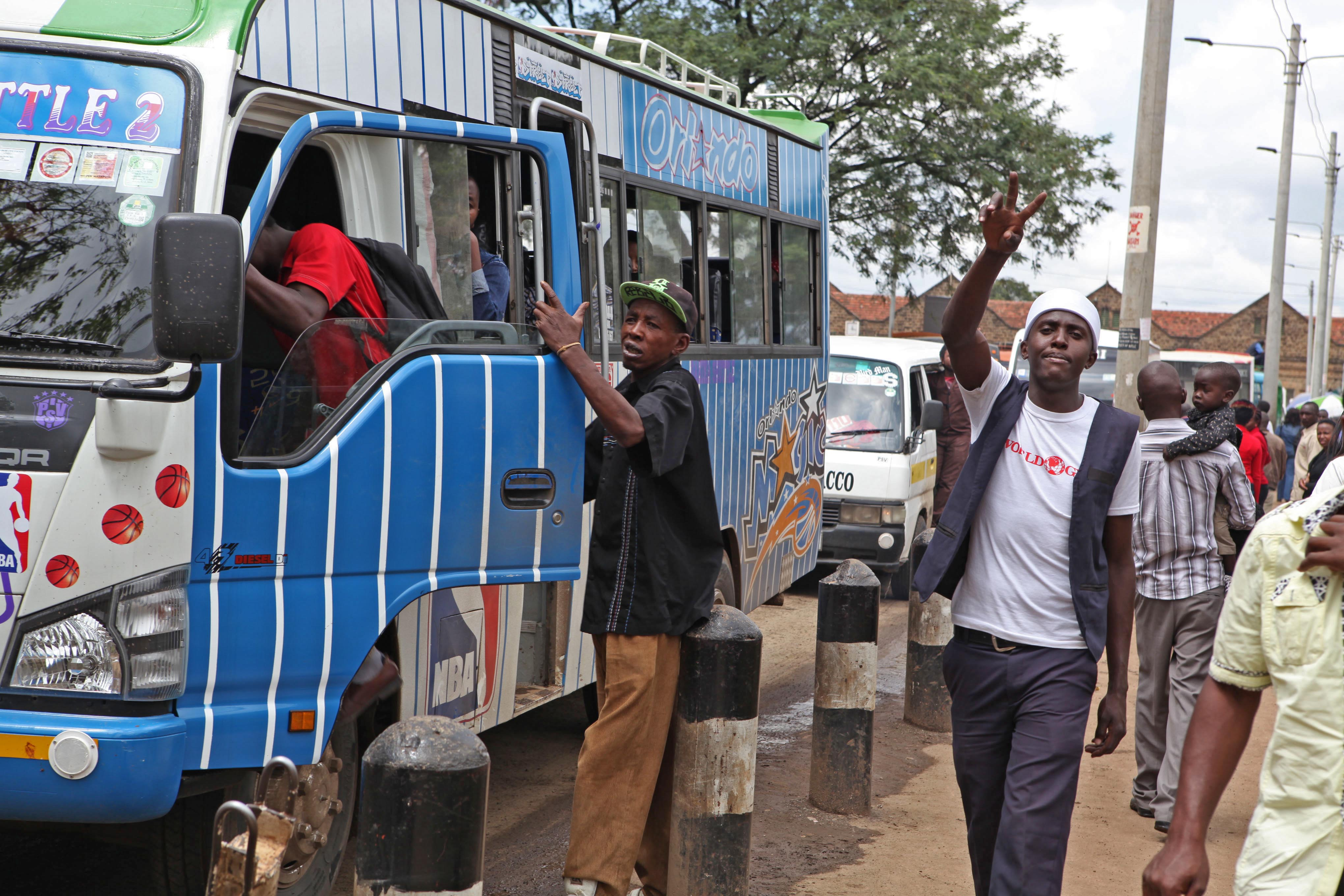 A day in the life of a Matatu (mini-bus) in Nairobi. This is an image of "African people at work" from Kenya